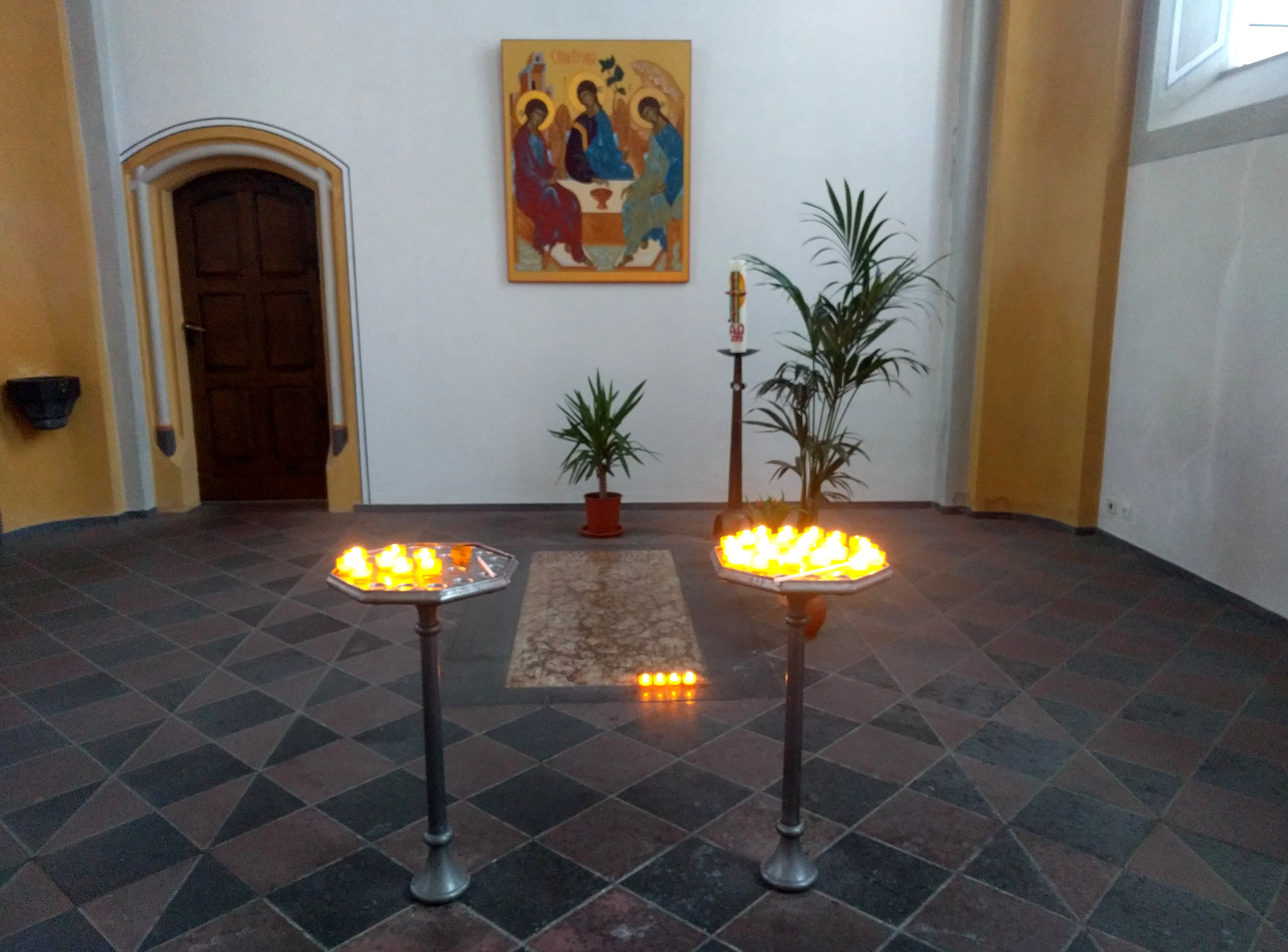 Grave of Wilhelm Eberschweiler in the Jesuit Church of Trier